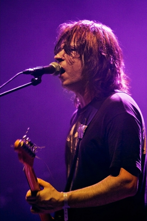 Amaury Cambuzat with Faust performing at a Rock in Opposition Festival in Southern France in April 2007.